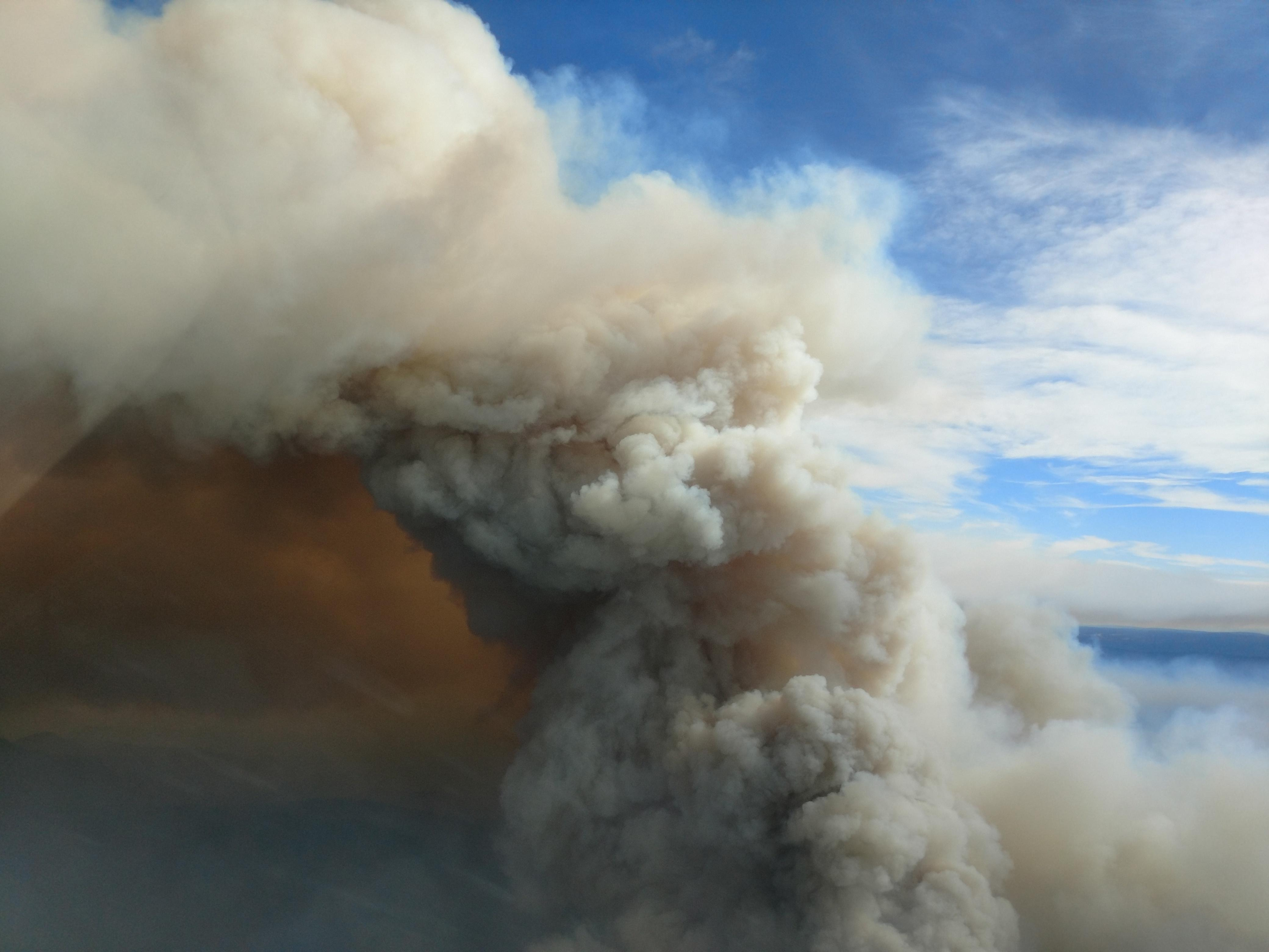 Tower of smoke rising from Jolly Mountain fire as seen from aircraft